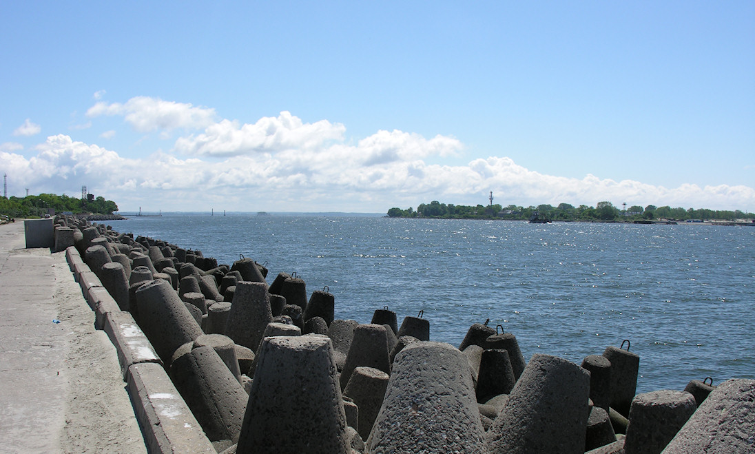 View to the Vistula Lagoon and Spit from Baltiysk.